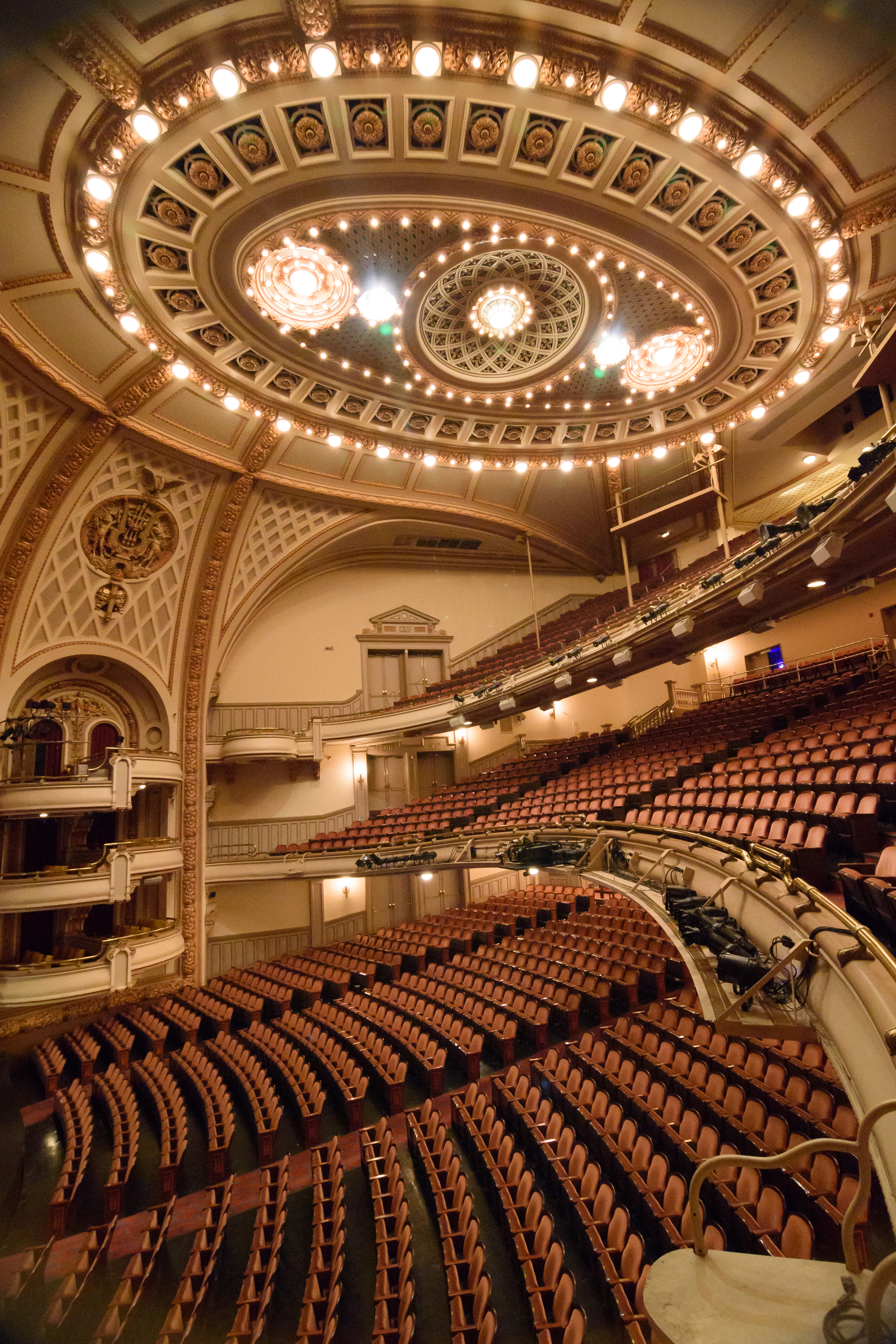 Howard Gilman Opera House, Peter Jay Sharp Building, Brooklyn Academy of Music, Brooklyn, New York City. Site: Brooklyn Academy of Music